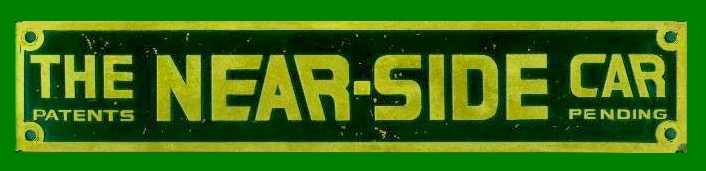 Builders Plate from a Brill Near-side streetcar